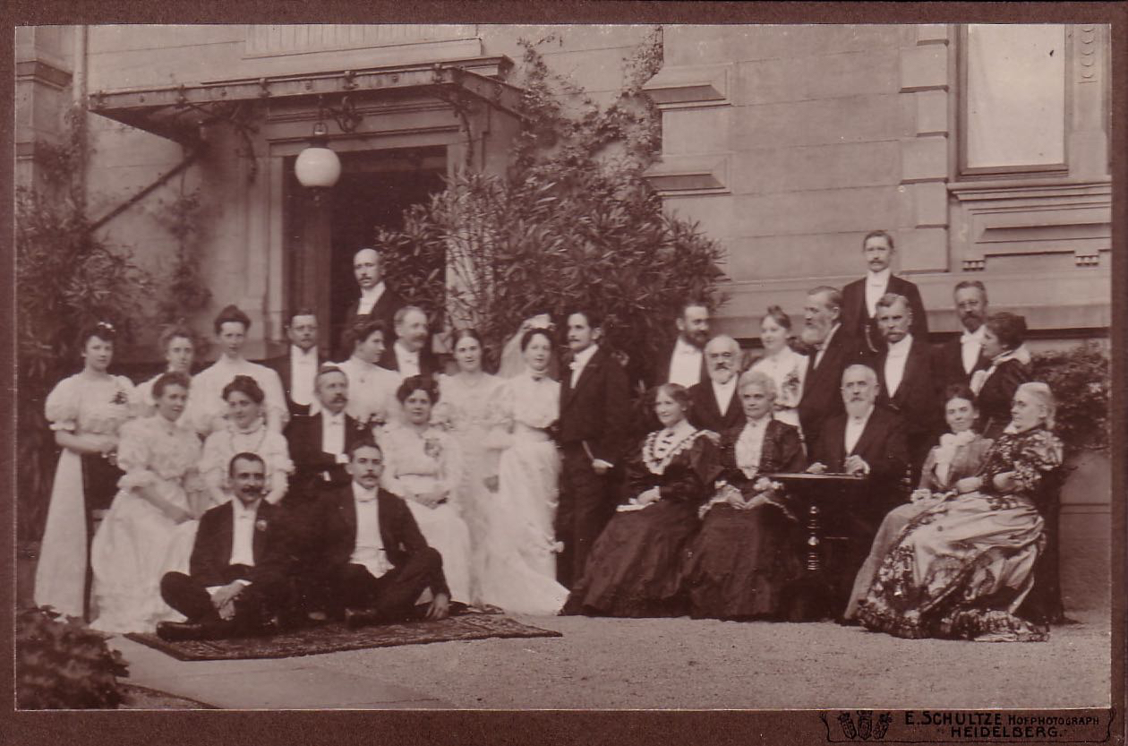 The families Oskar von Bülow and Otto Schoetensack